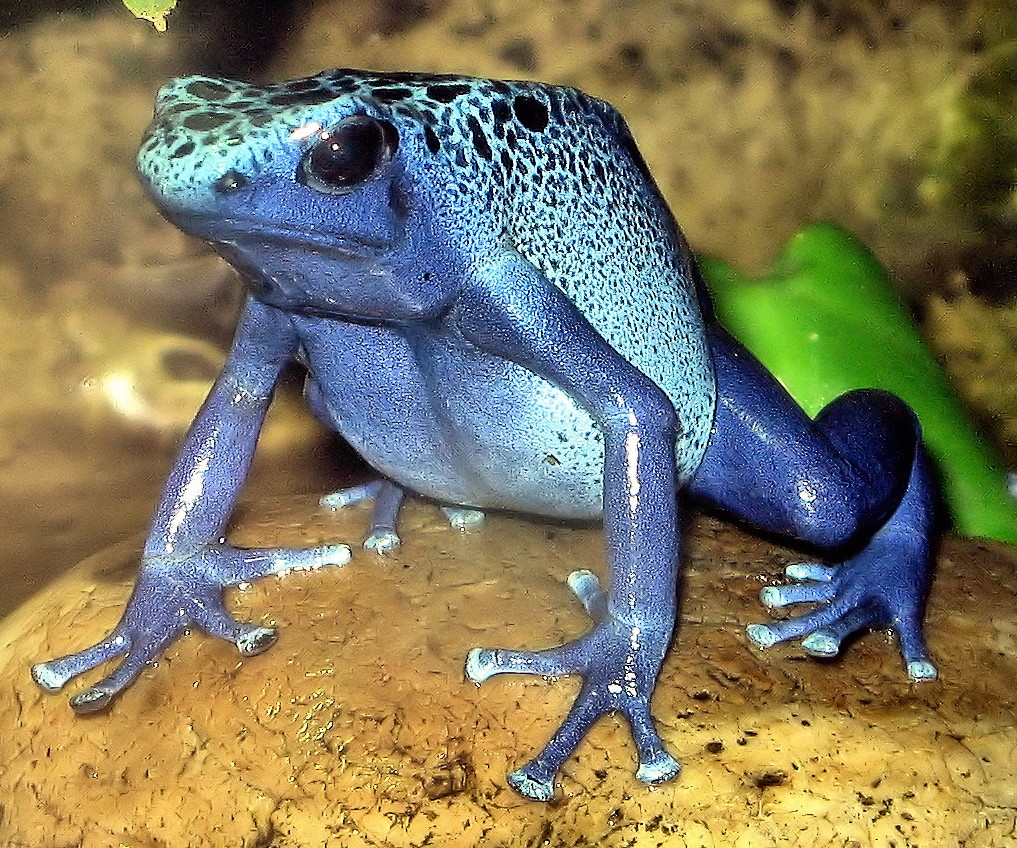 Blue Poison Dart frog Dendrobates azureus at Bristol Zoo, England.